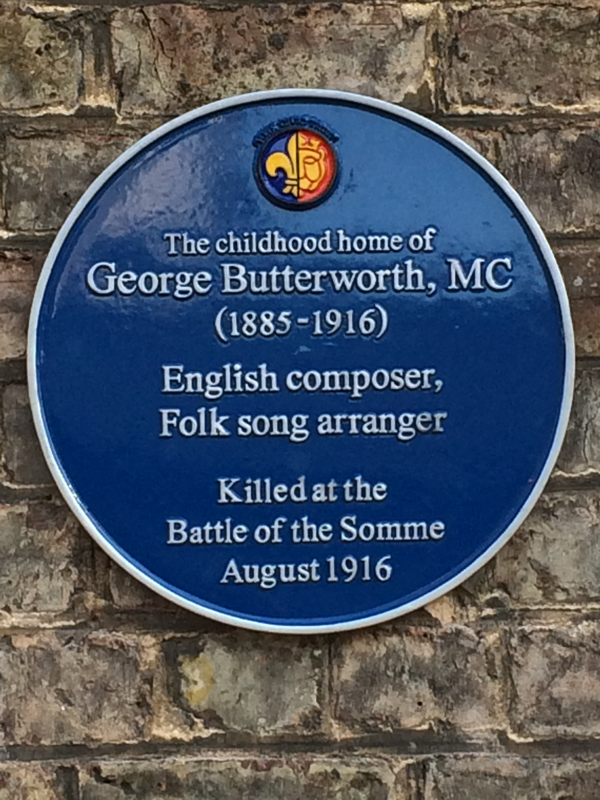 The childhood home of George Butterworth, MC (1885-1916) English composer, Folk song arranger Killed at the Battle of the Somme August 1916